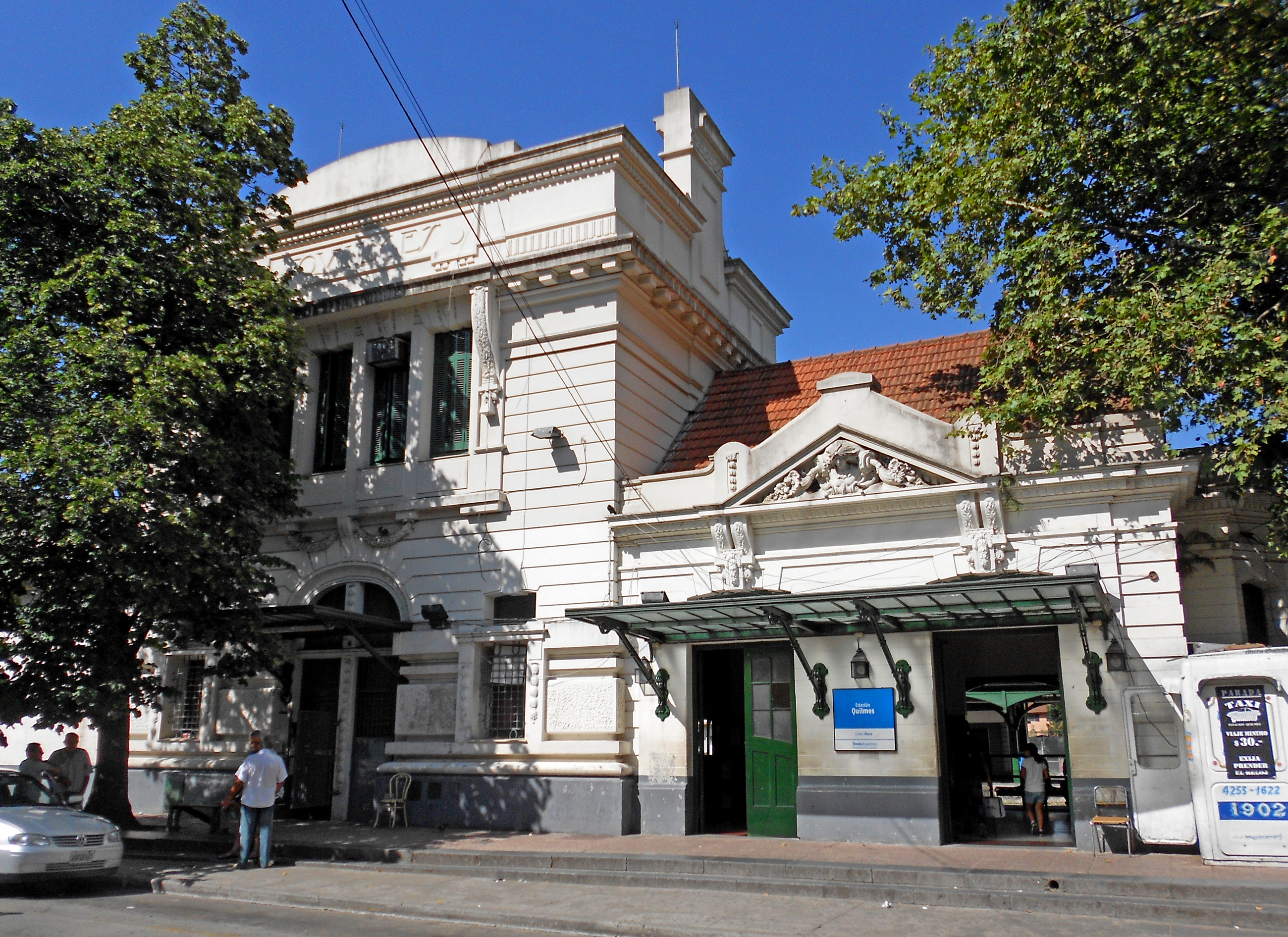 Quilmes Station, Roca Line. It was designed by English architect Paul Bell Chambers and built in 1908.